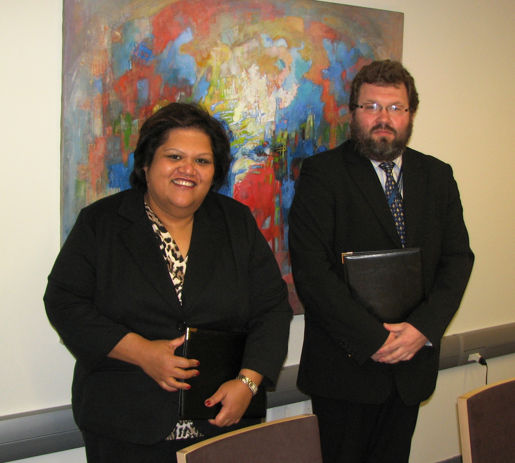 Ambassadors to the United Nations, Marlene Moses (left) from Nauru and Margus Kolga (right) from Estonia